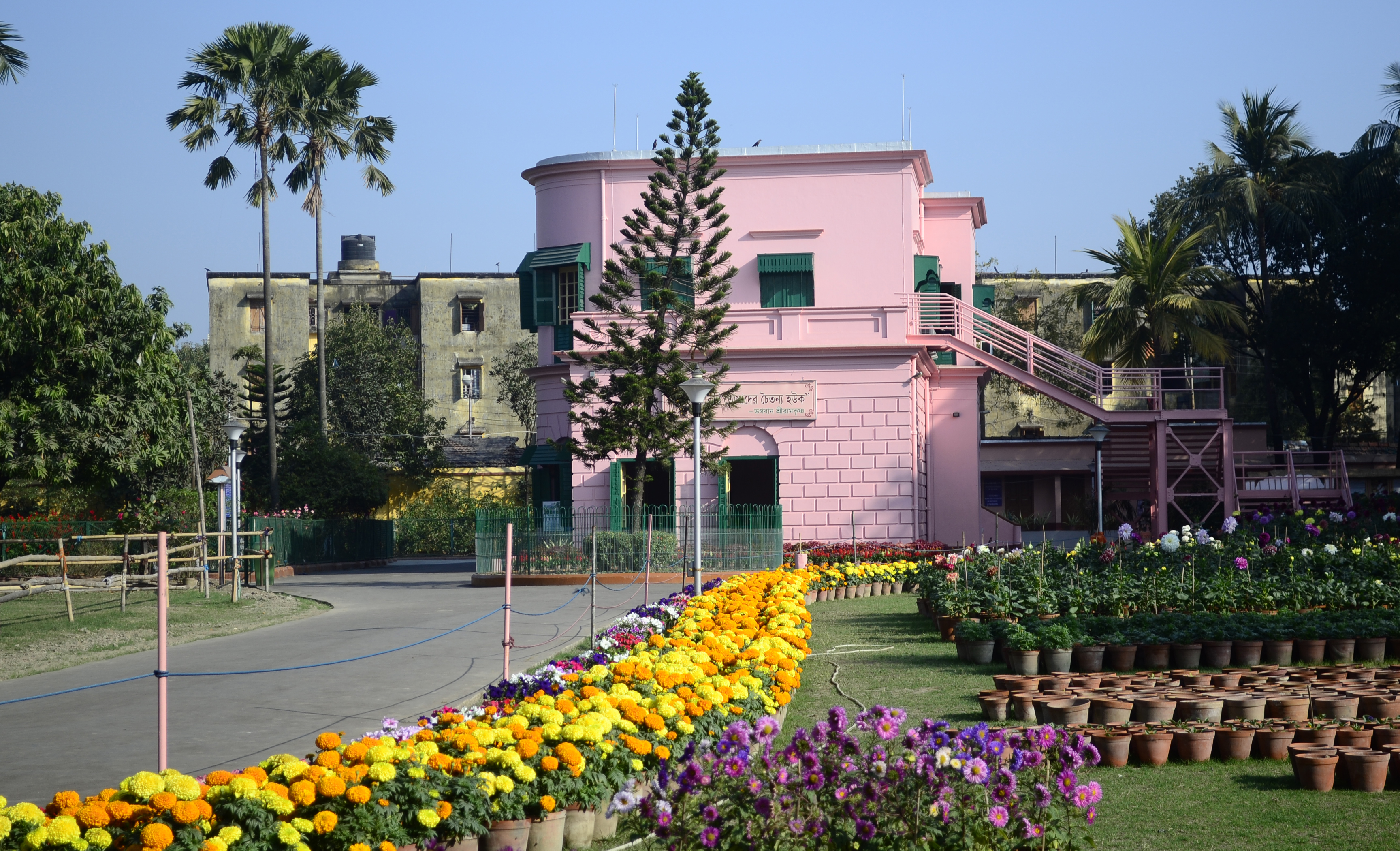 When Sri Ramakrishna was suffering from serious illness, he was removed for treatment from the Kali Temple of Dakshineswer to Shympukur in the month of October, 1885. A little more than three months after, when it was found that medicine and diet did not effect any improvement, the devotees at the suggestion of Dr. Mahendra Lal Sarkar, brought him in the afternoon of the 11th December, 1885 to the Cossipore Garden House which stood on the broad road that ran through the northern part of Calcutta and joined the Baghbazar area with Baranagar, three miles away from the city. This garden was free from stuffy and polluted atmosphere and the devotees were extremely happy when they saw that the master was pleased to find the fresh air and solitude of the place abounding in fruits and flowering plants.